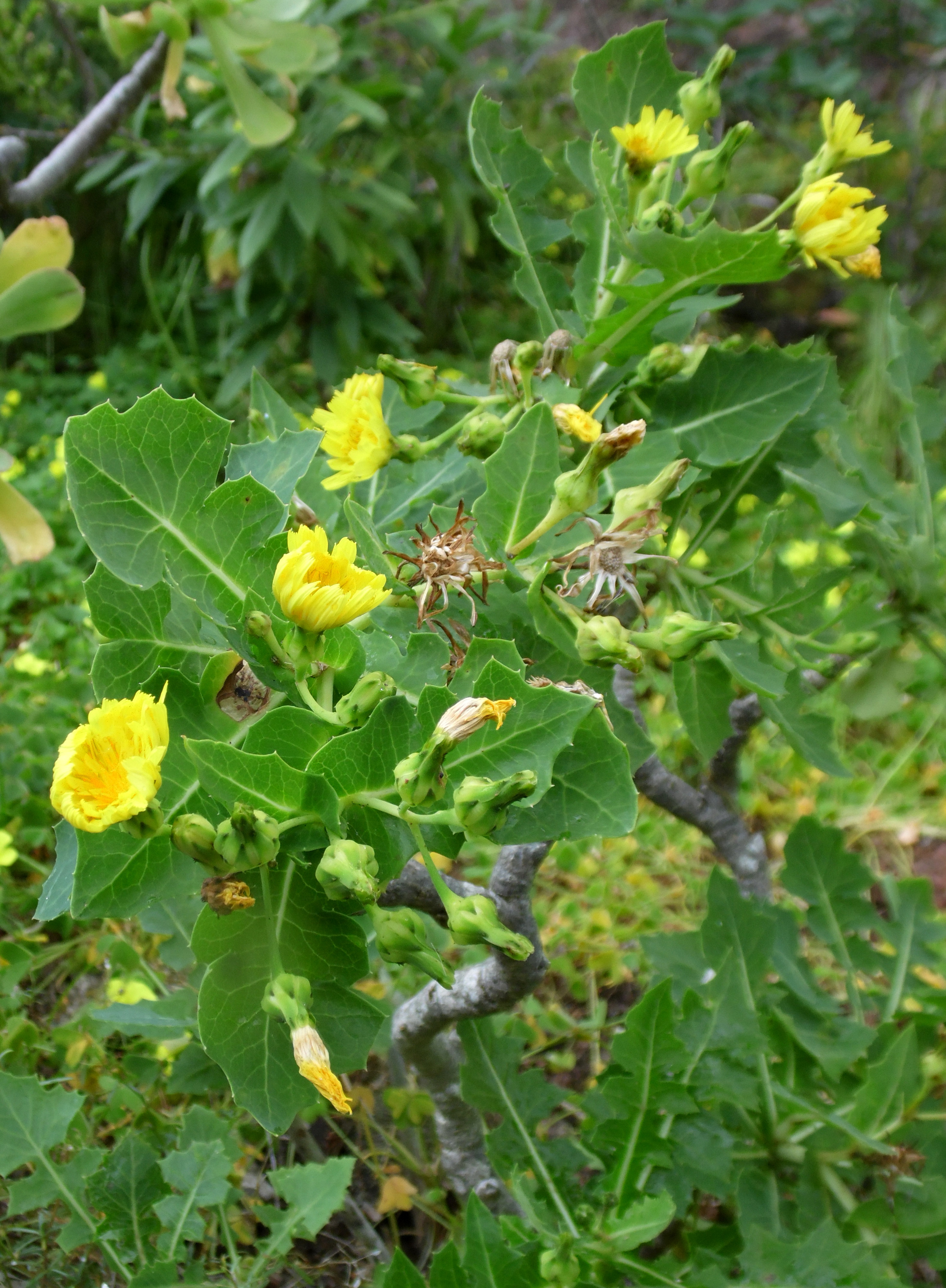 Sonchus brachylobus in Jardín Botánico Canario Viera y Clavijo